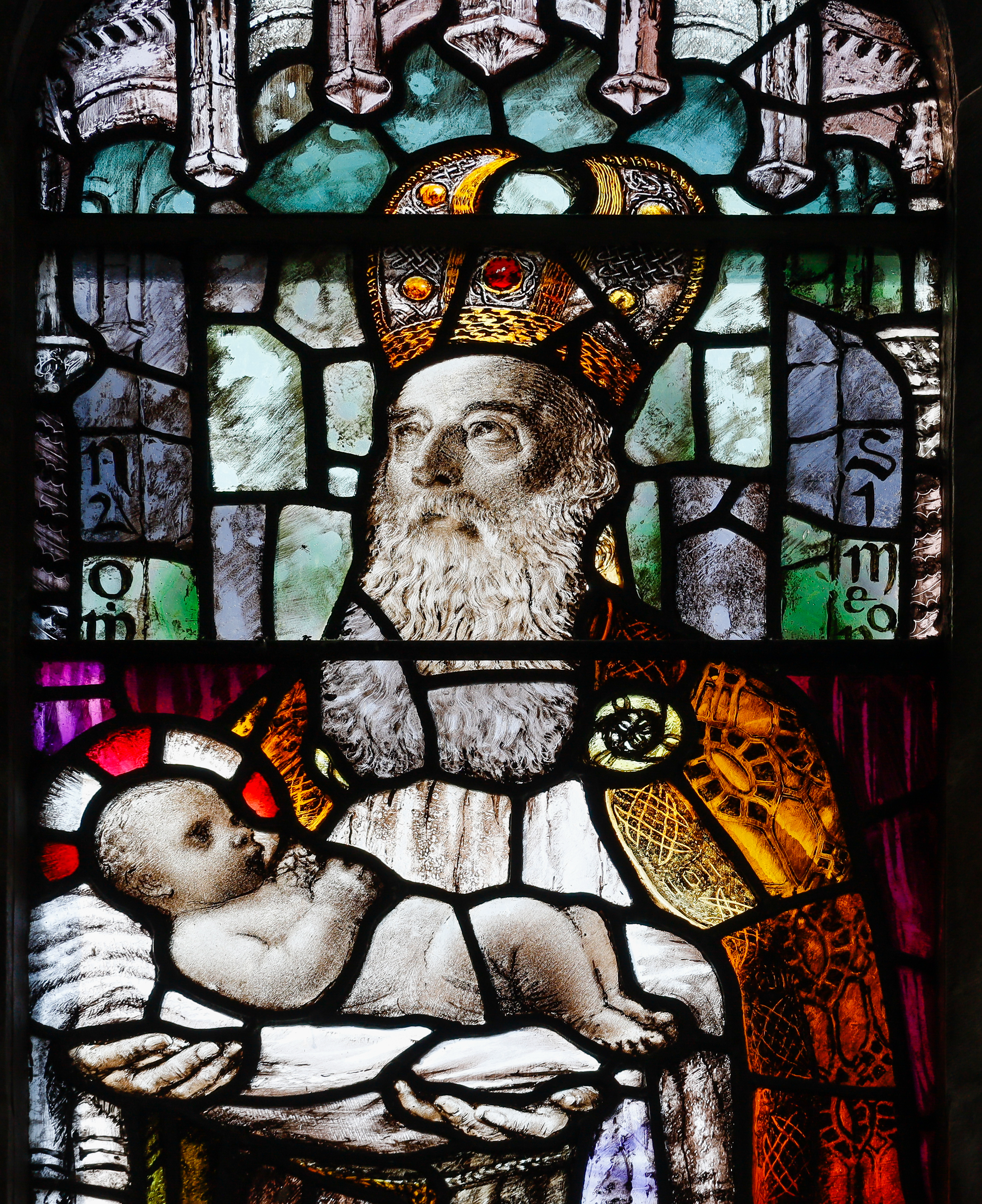 Detail of the stained glass window in the baptistry by Michael Healy (1873–1941), depicting Simeon holding Jesus Christ. This work was created in 1904 in the An Túr Gloine workshop in Dublin. (See Nicola Gordon Bowe et al, Gazetteer of Irish Stained Glass, ISBN 0-7165-2413-9, p. 57; St Brendan's Cathedral, Loughrea, ISBN 0-900346-76-0.) Wikidata has entry Q7592699 with data related to this item.